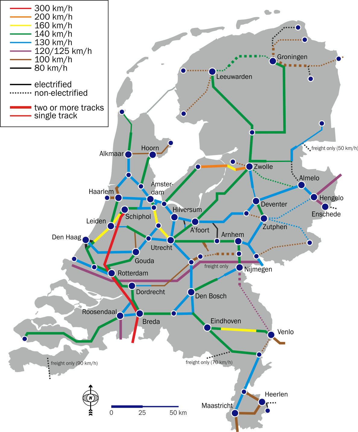 Maximumspeeds of Dutch railways